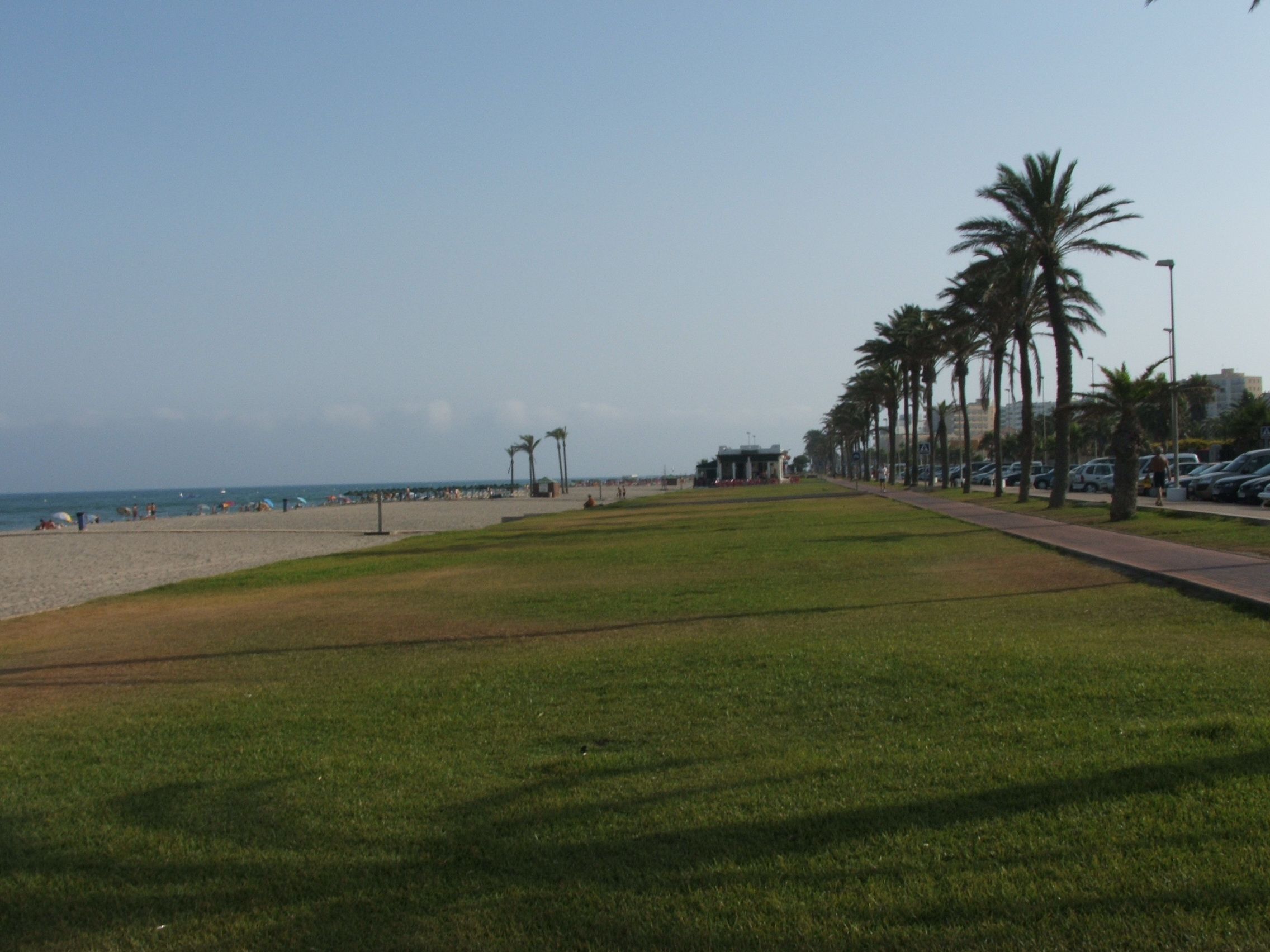 The beach, the grass and the promenade, in Roquetas de Mar (Almería, Spain)